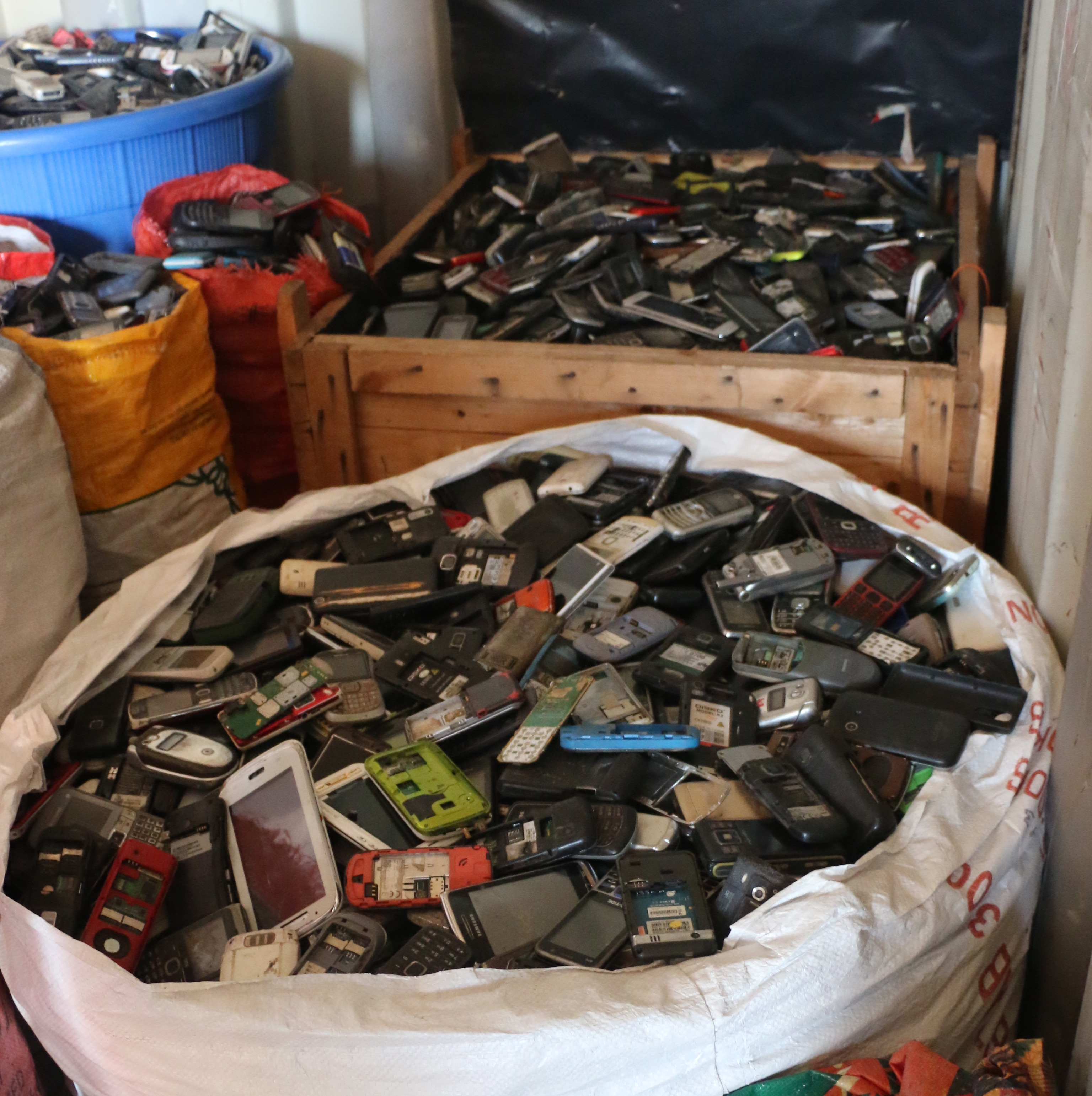 Day 6 Warehouse